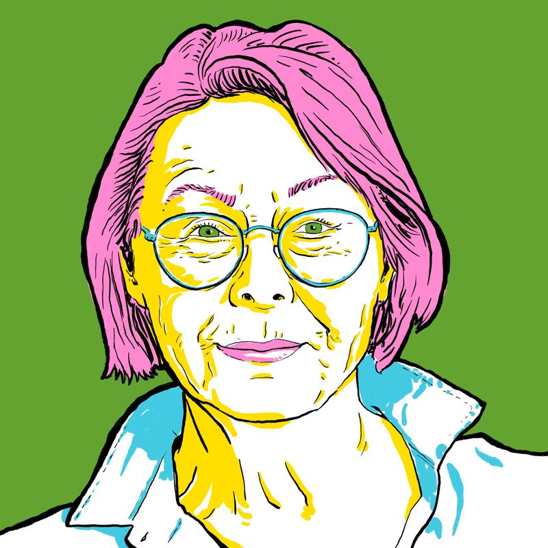 Photo showing the Norwegian textile artist Lise Skjåk Bræk in one of her folk art inspired costumes